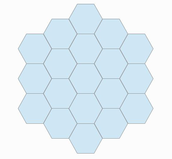 Assembly diagram map of catan